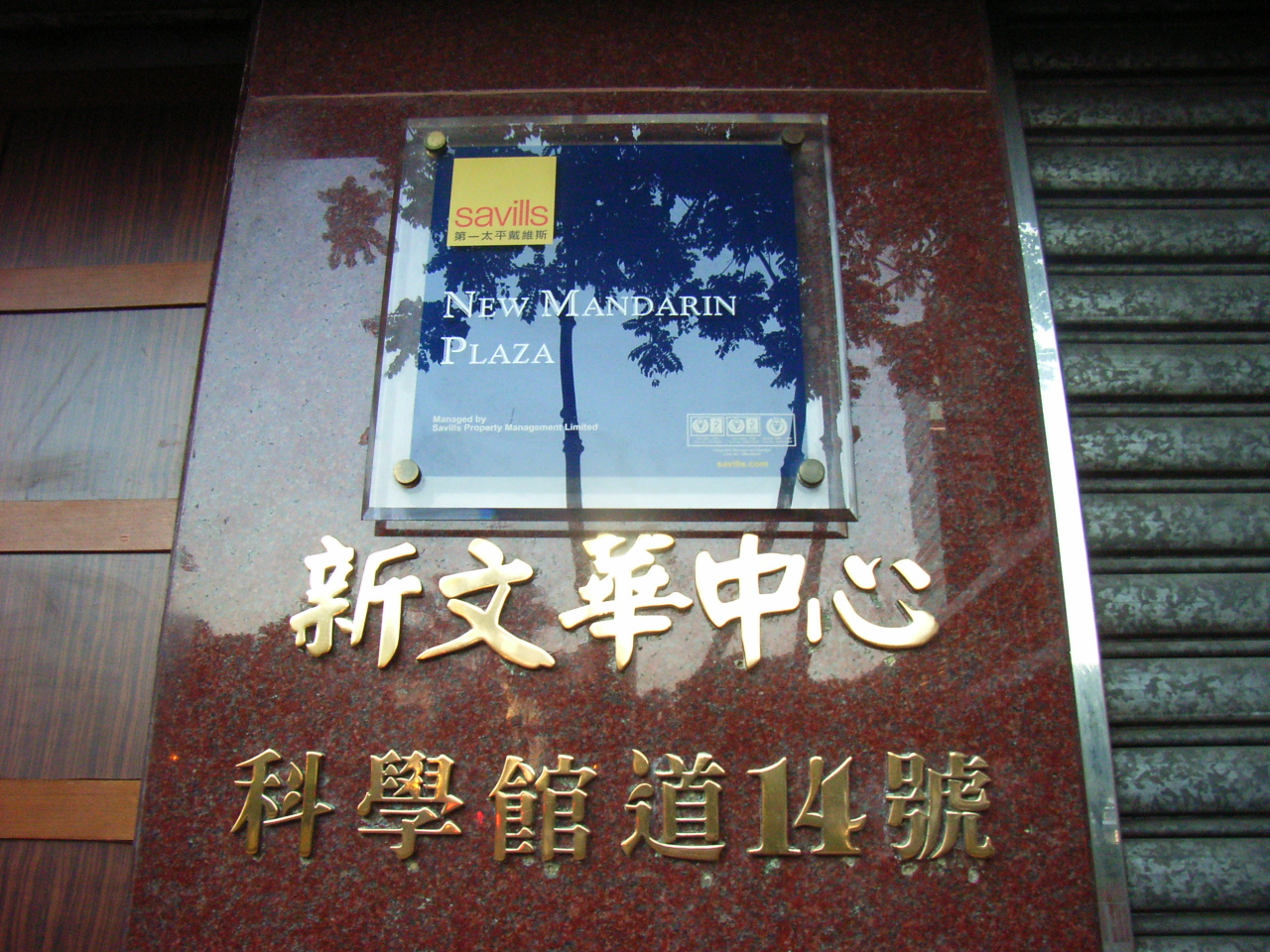 科學館道14號zh:新文華中心